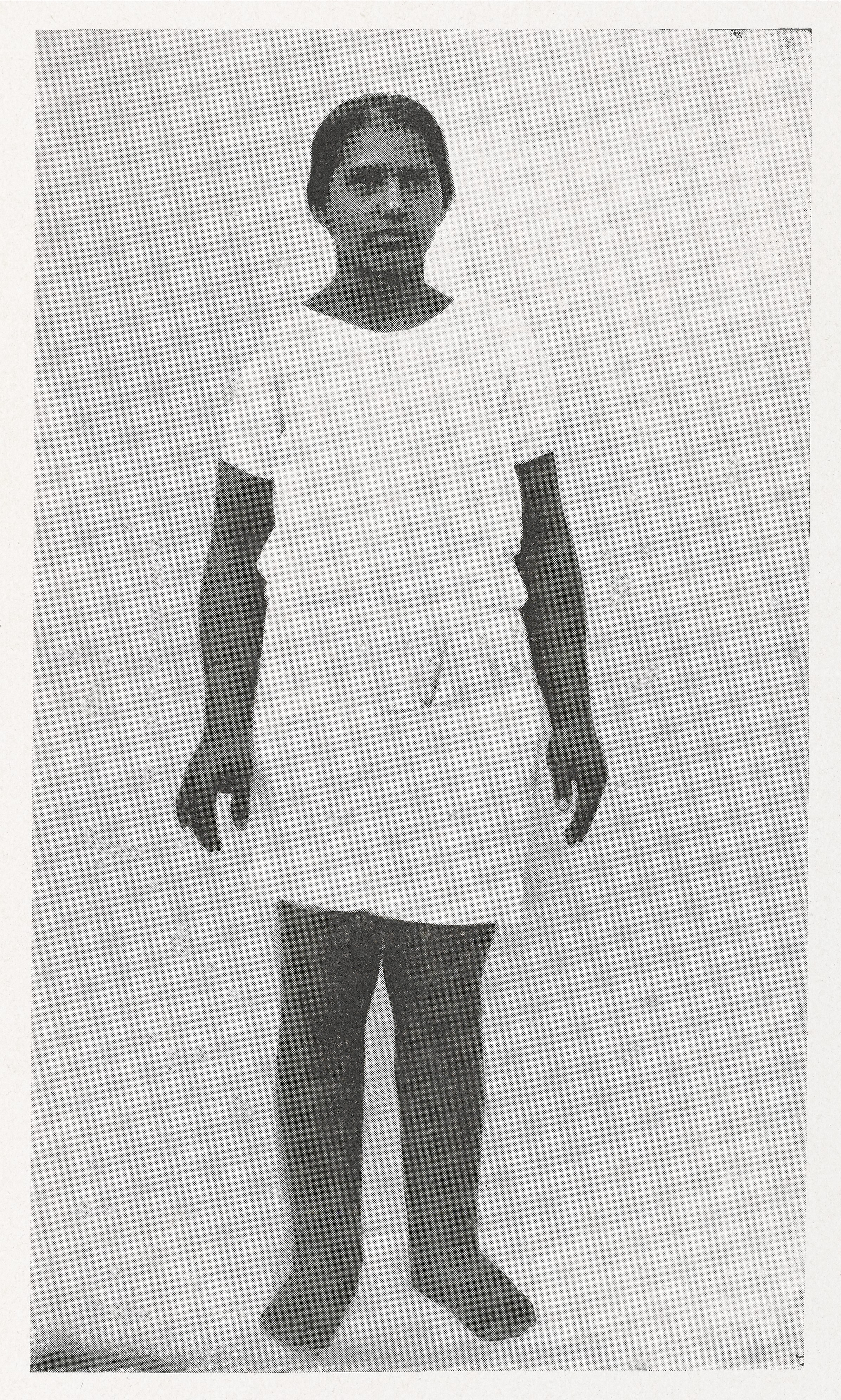 Photograph of woman with Chagas disease. General Collections Keywords: Trypanosomiasis; Chagas Disease; José Guilherme Lacorte